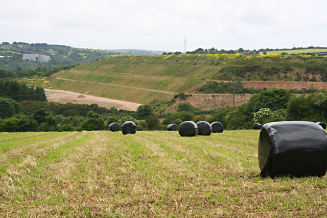 The Wheal Jane Tailings Dam. When Wheal Jane was in operation this dam enclosed settling lagoons where water pumped from the mine was treated with lime and left to settle before being released into the river.